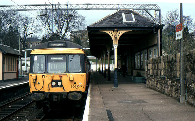 Milngavie station. See 737527. A much earlier view of the station showing a three-car emu awaiting departure with the 12.50 to Springburn.